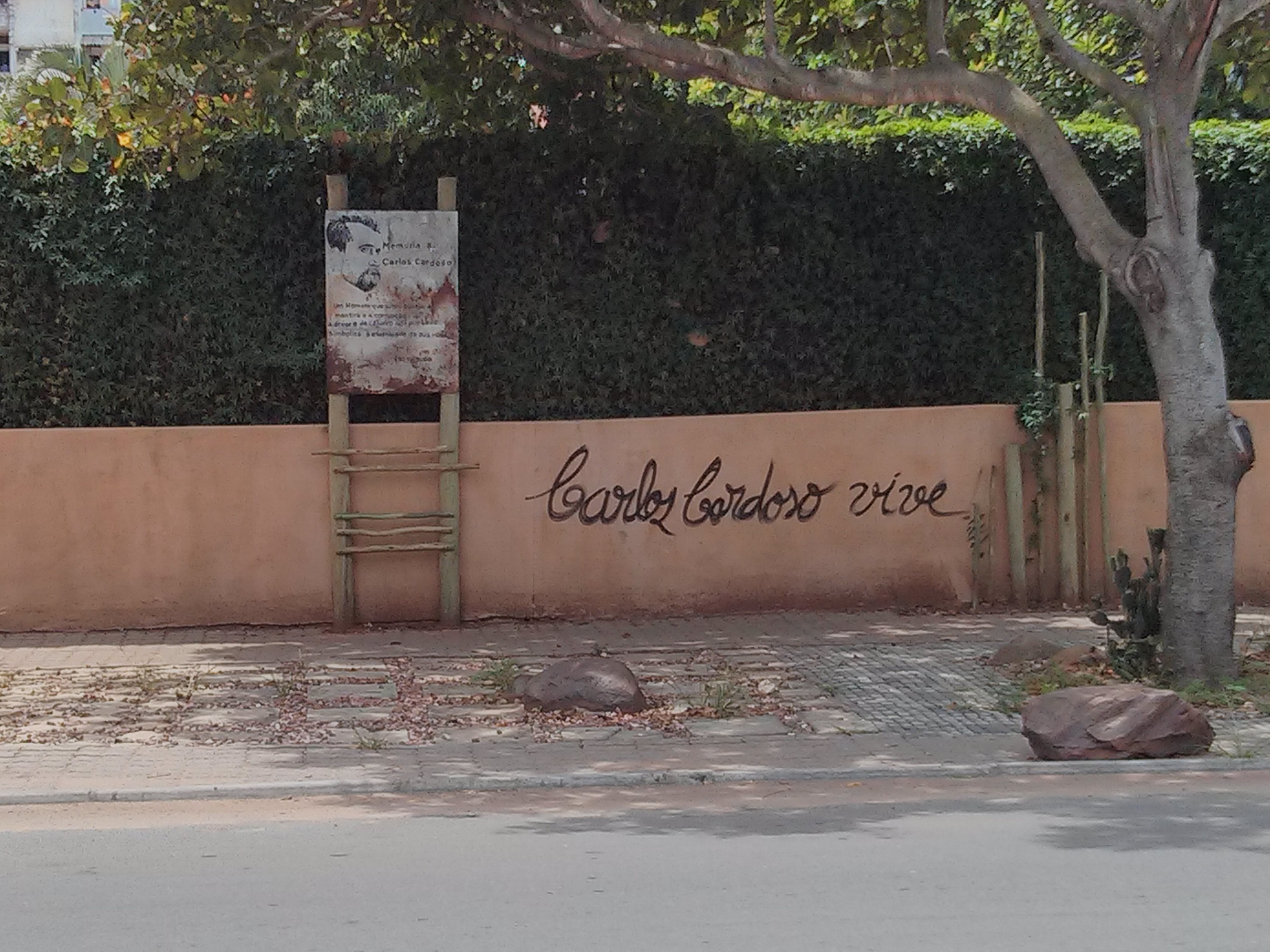 Memorial plaque to Carlos Cardoso in Maputo, Mozambique